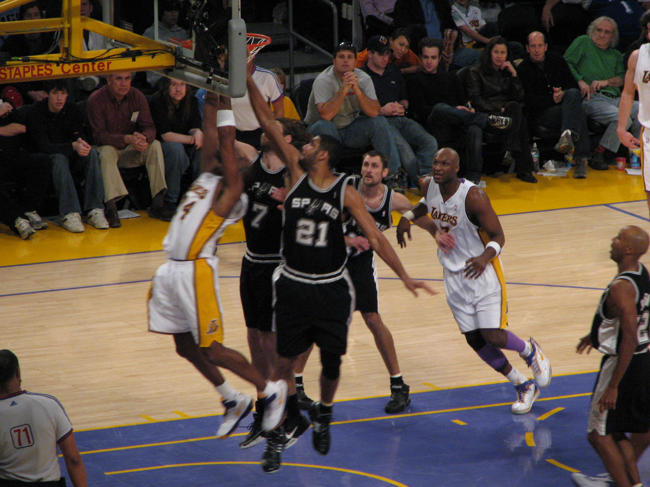 Photo of action during a San Antonio Spurs (in black) and Los Angeles Lakers game.